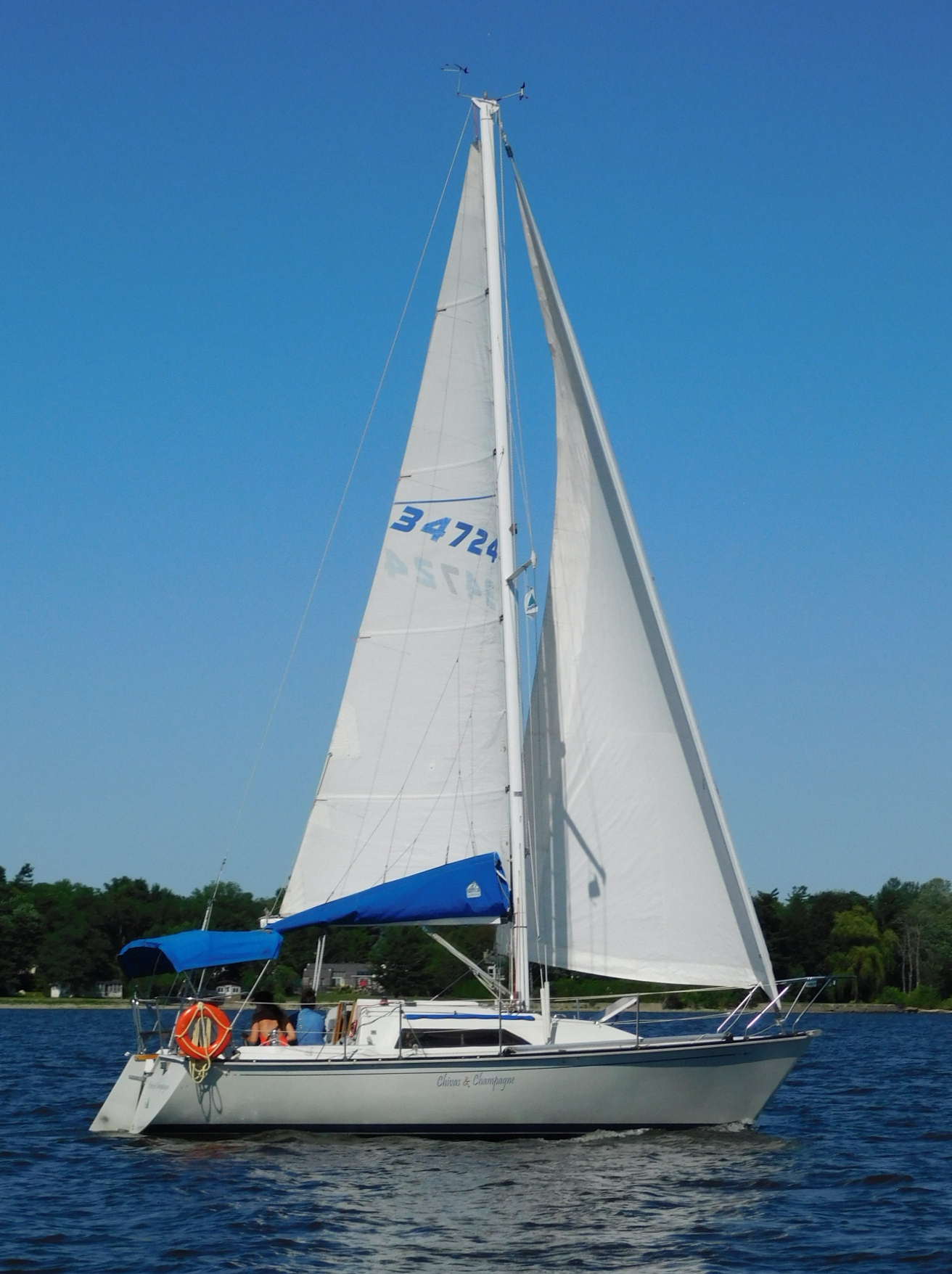 A C&C 27 Mark V sailboat named Chivas & Champagne.